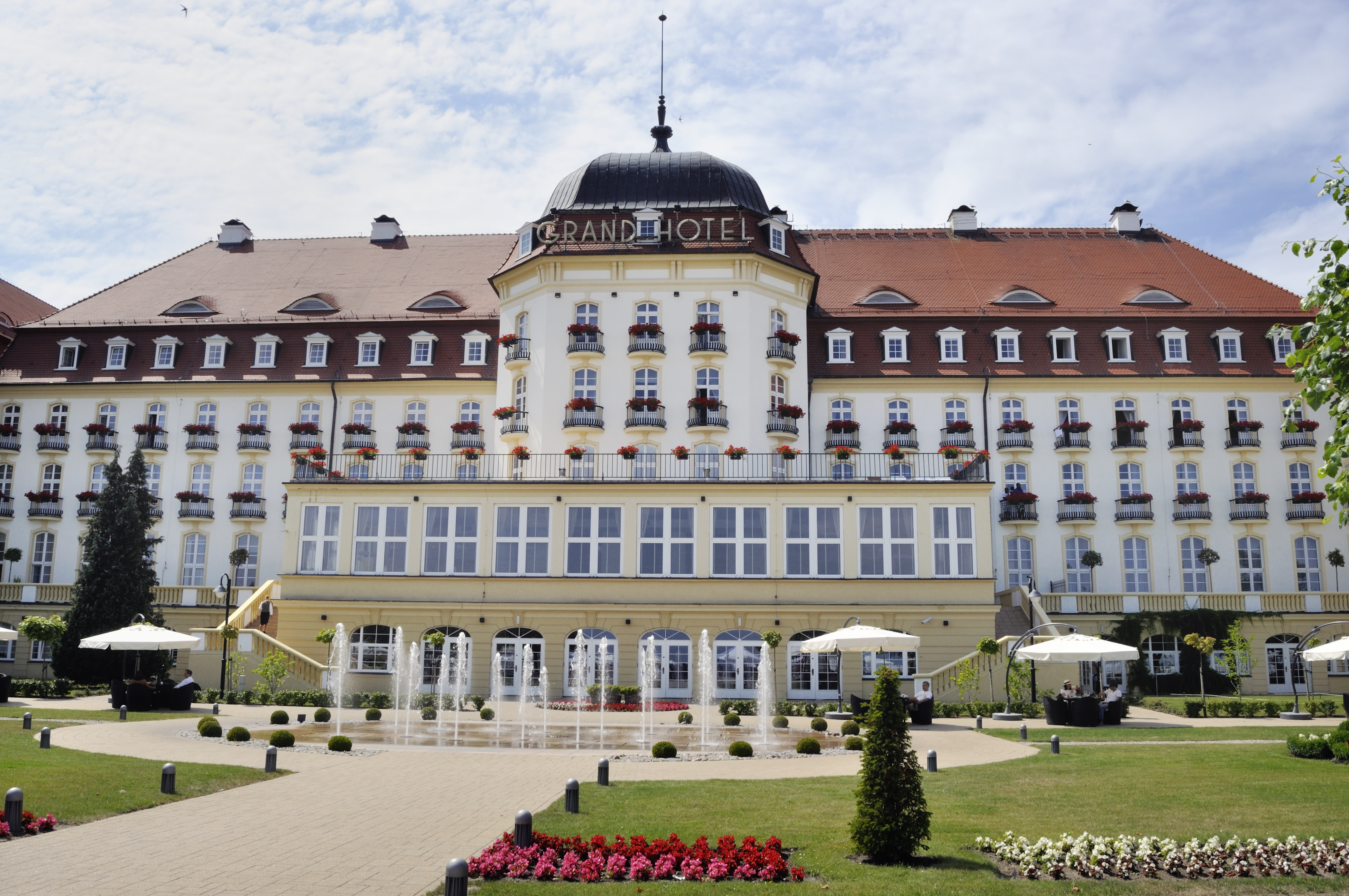 Picture taken in Sopot after Wikimania 2010 conference.